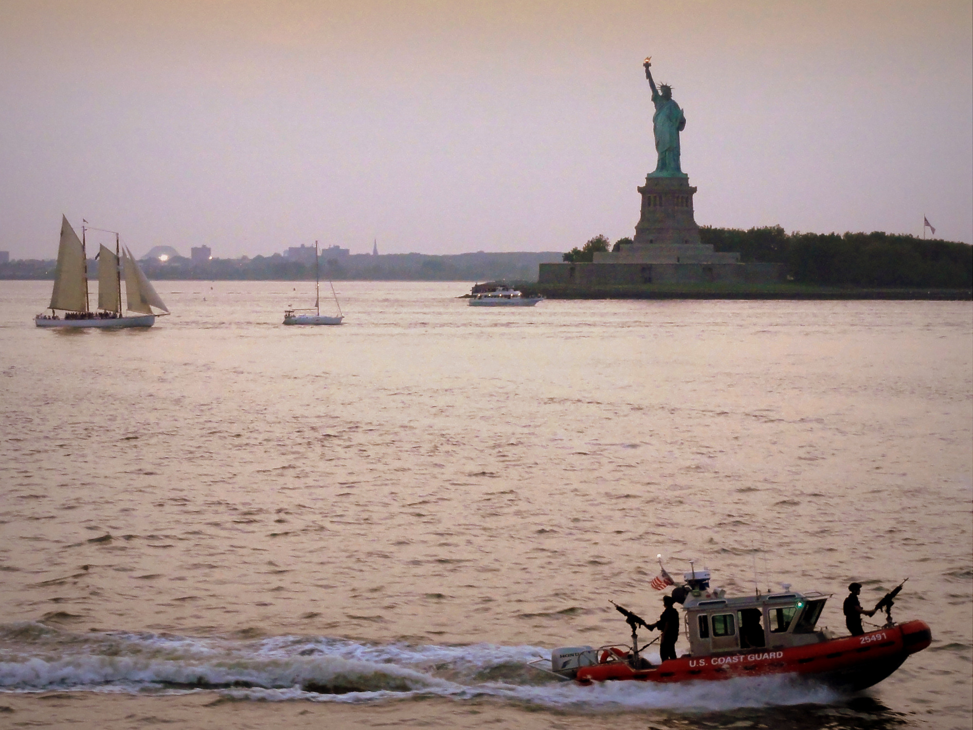 A US Coast Guard patrol boat around Liberty Island in New York